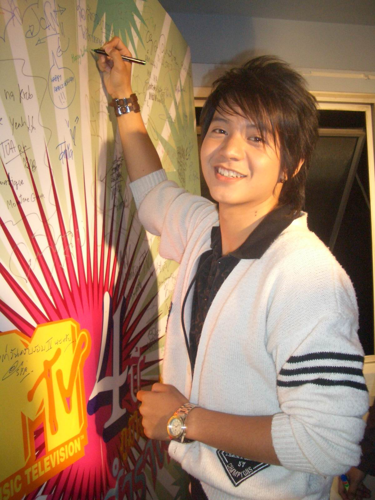 Ice Sarunyoo at MTV